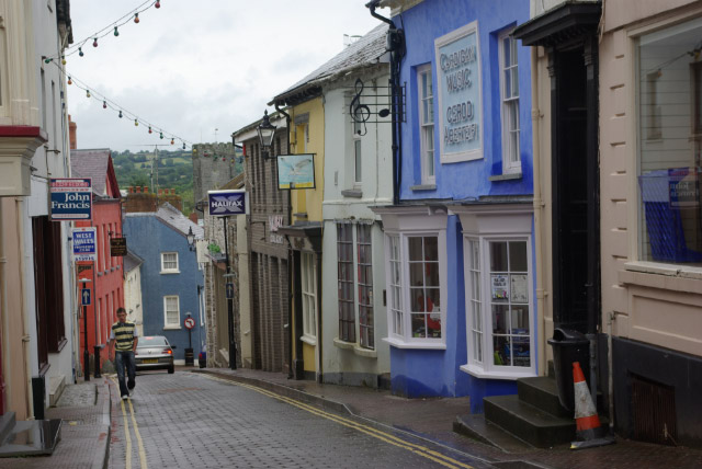 St Mary Street, Cardigan Leading off High Street, this attractive narrow street leads down towards the river.